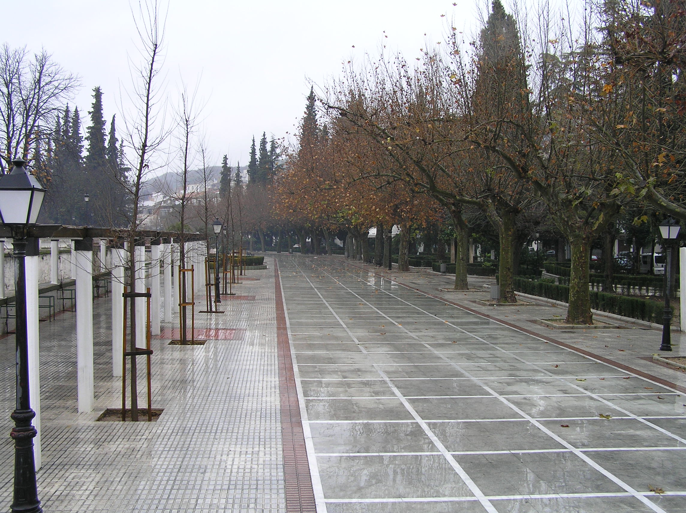 Parque en invierno